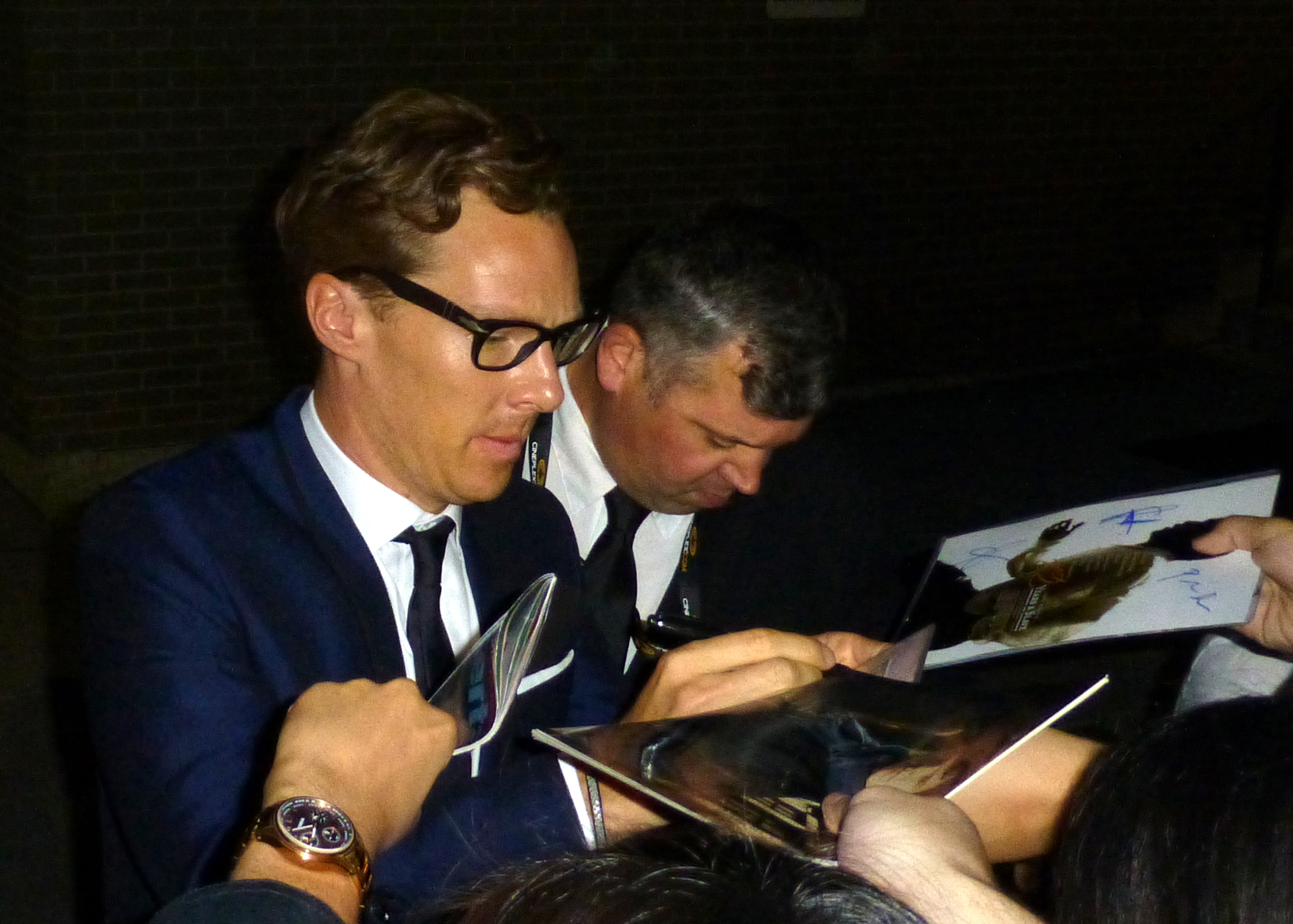 Benedict Cumberbatch at the premiere of The Imitation Game, 2014 Toronto Film Festival